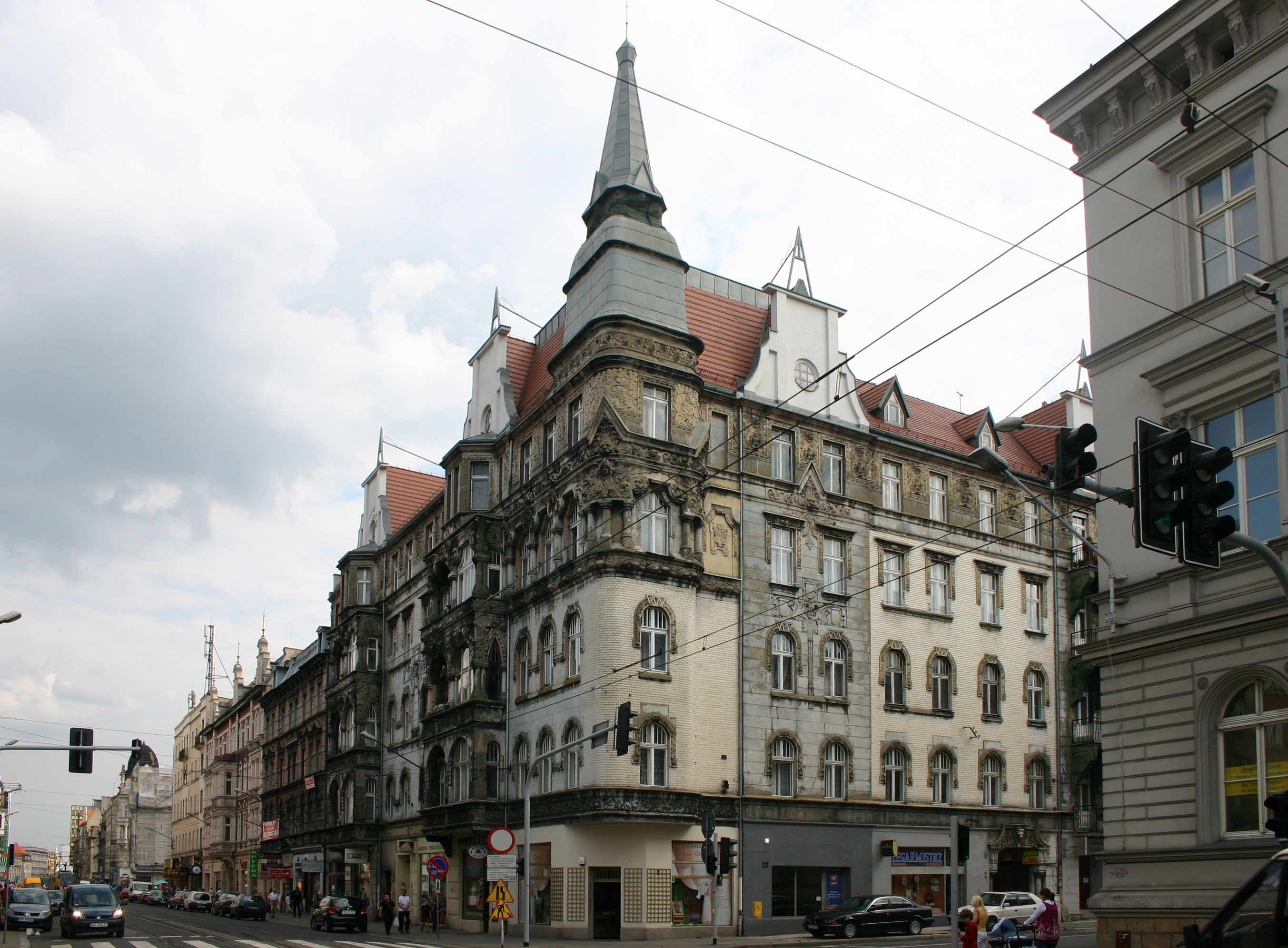 building at the corner 3 Maja/Slowackiego Street in Katowice.